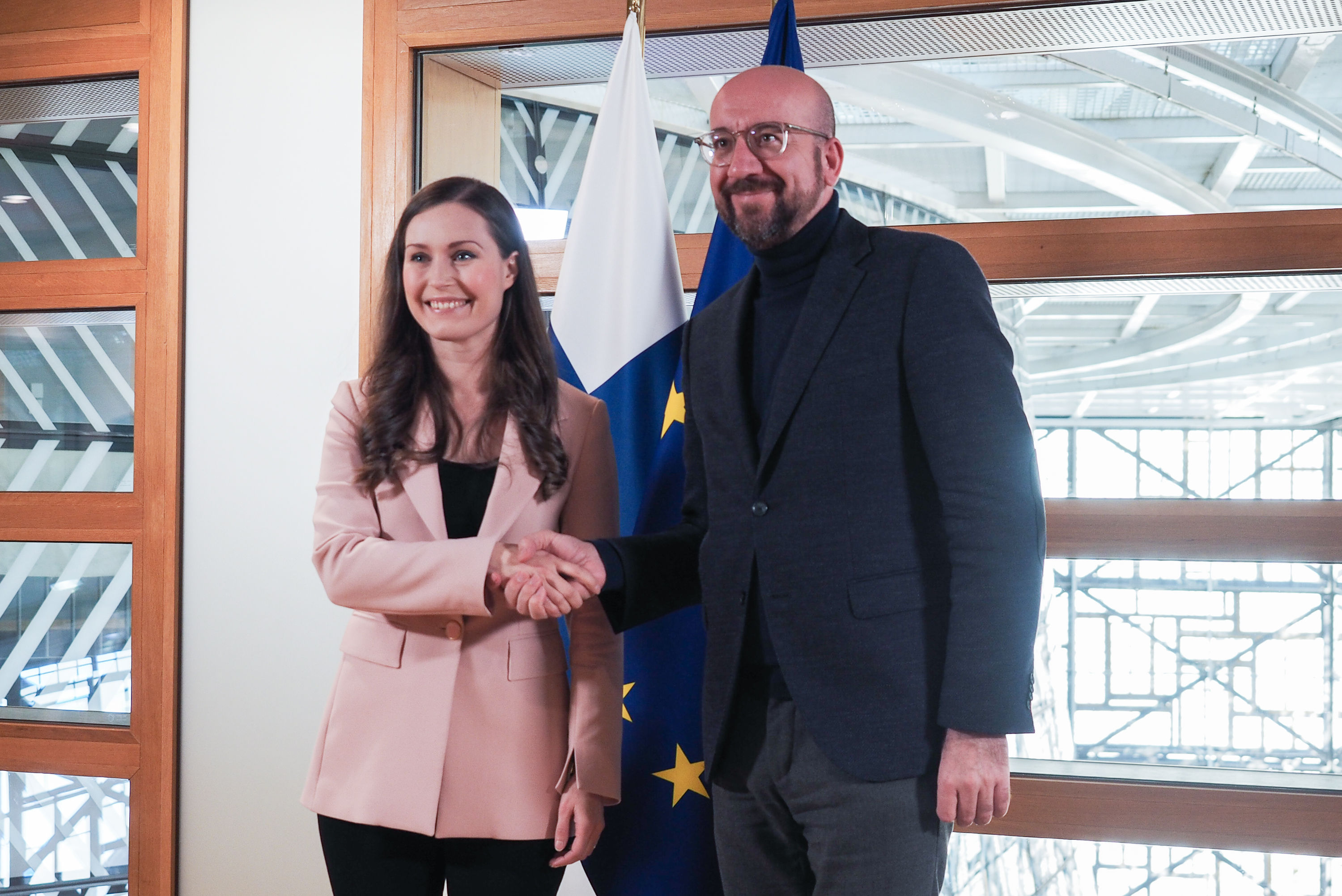 On Thursday 6 February, Prime Minister Sanna Marin met President of the European Council Charles Michel, Executive Vice-President of the Commission Frans Timmermans and Commissioner Jutta Urpilainen in Brussels. © Anne Sjöholm | valtioneuvoston kanslia